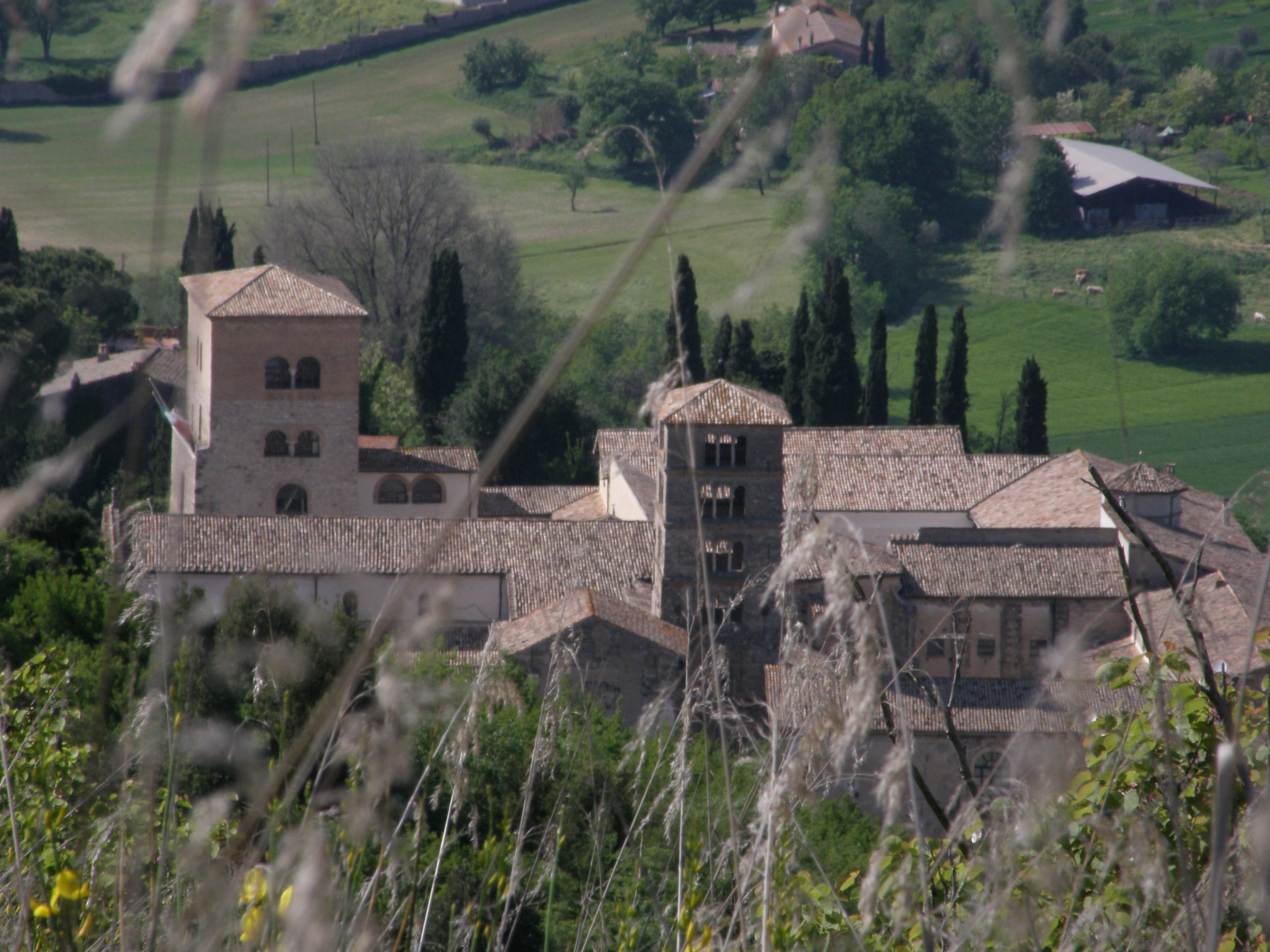 Farfa Abbey (Rieti, Italy) outlook from monte Acuziano